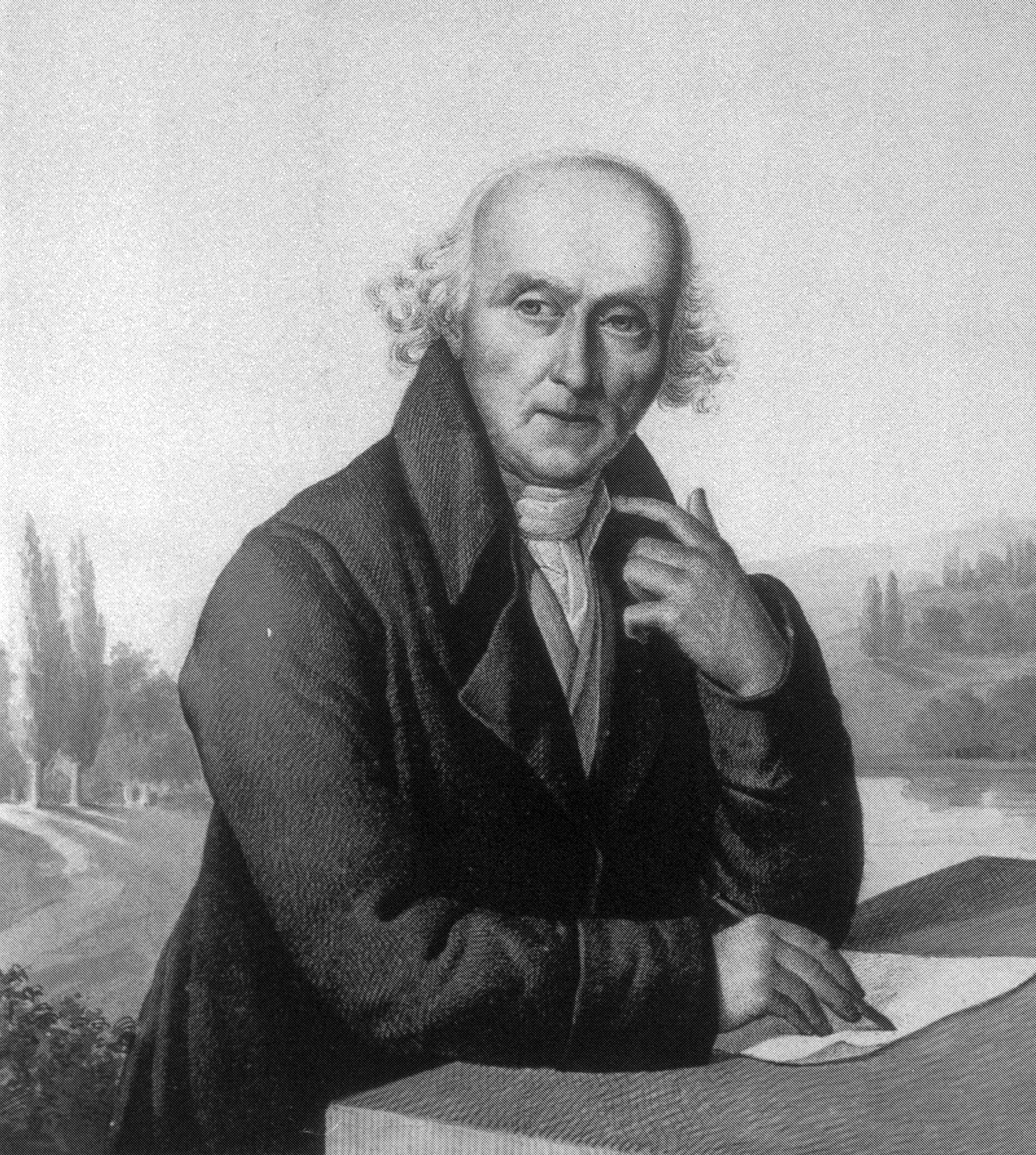 Jean Marie Morel (1728–1810), French architect, anonymous engraving.